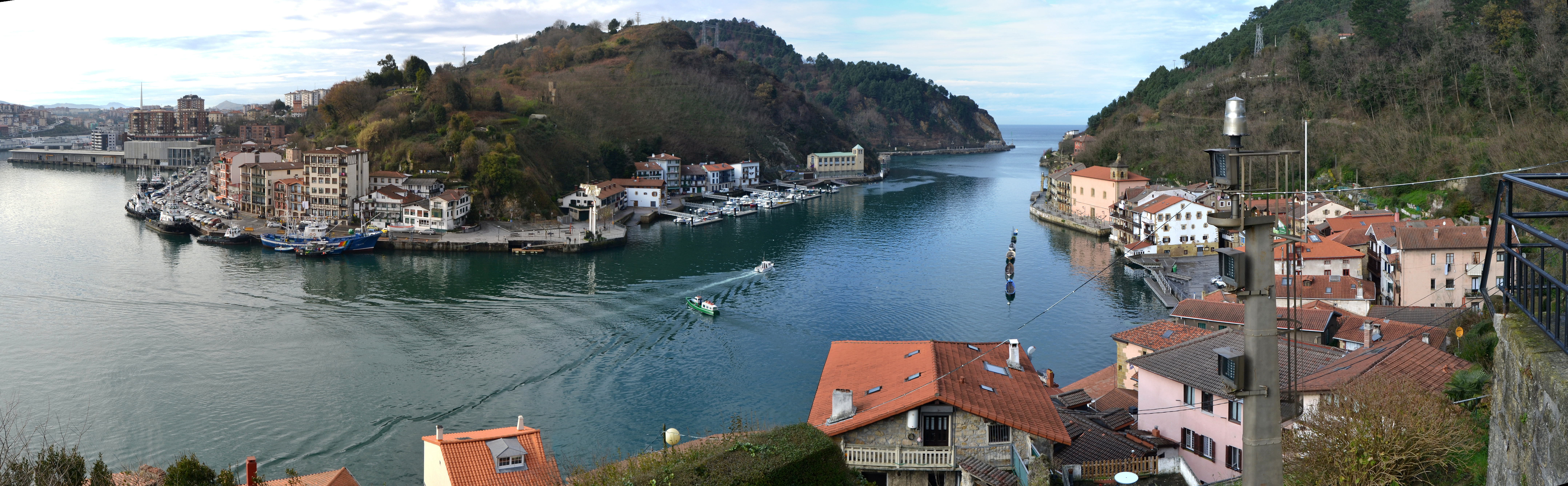 Mouth of Pasaia harbour, Pasai San Pedro and Pasai Donibane. Gipuzkoa, Basque Country.